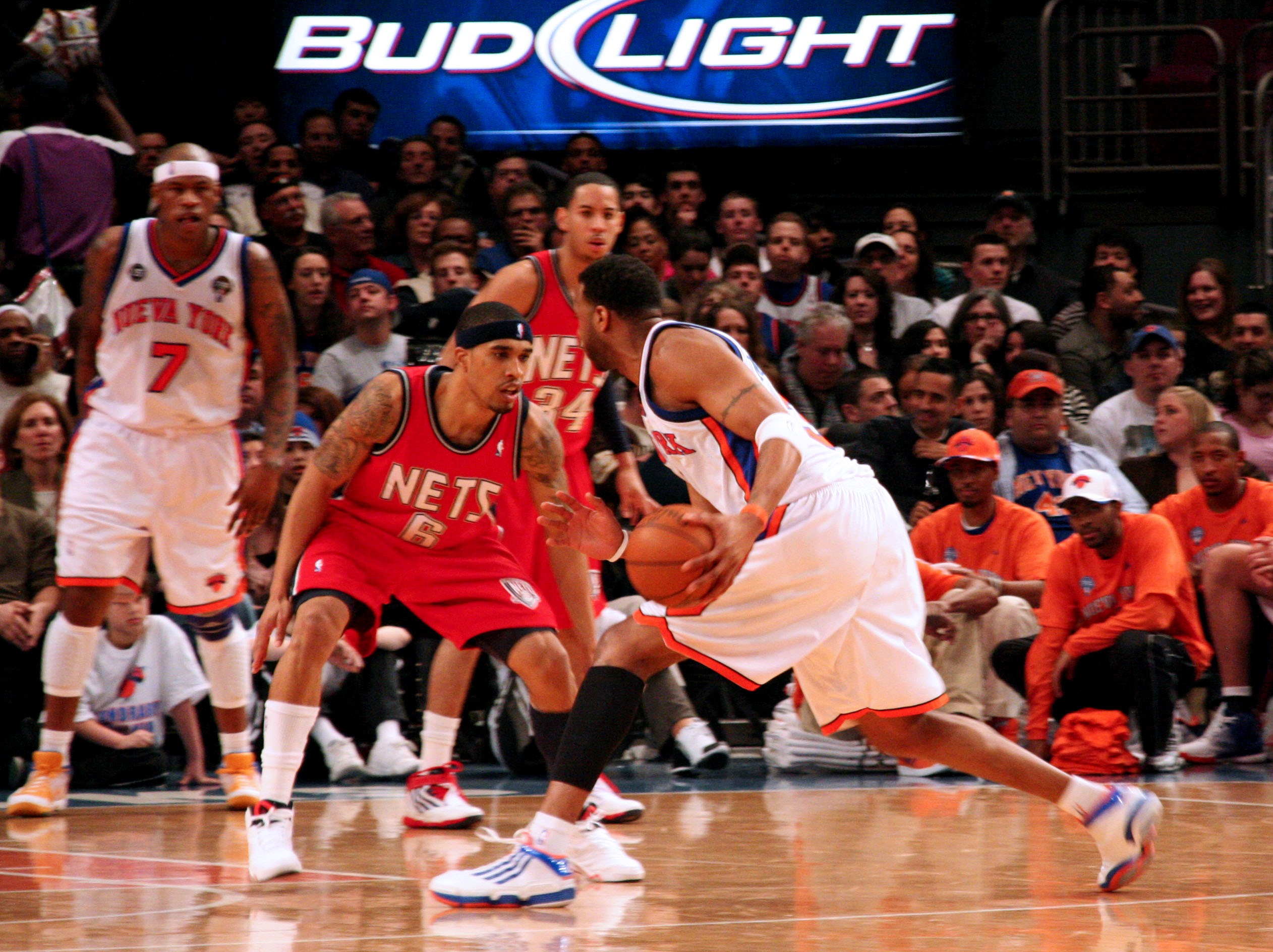 Courtney Lee (6) of the New Jersey Nets defending Tracy McGrady (with ball). Al Harrington (7) and Devin Harris (34) in the background.